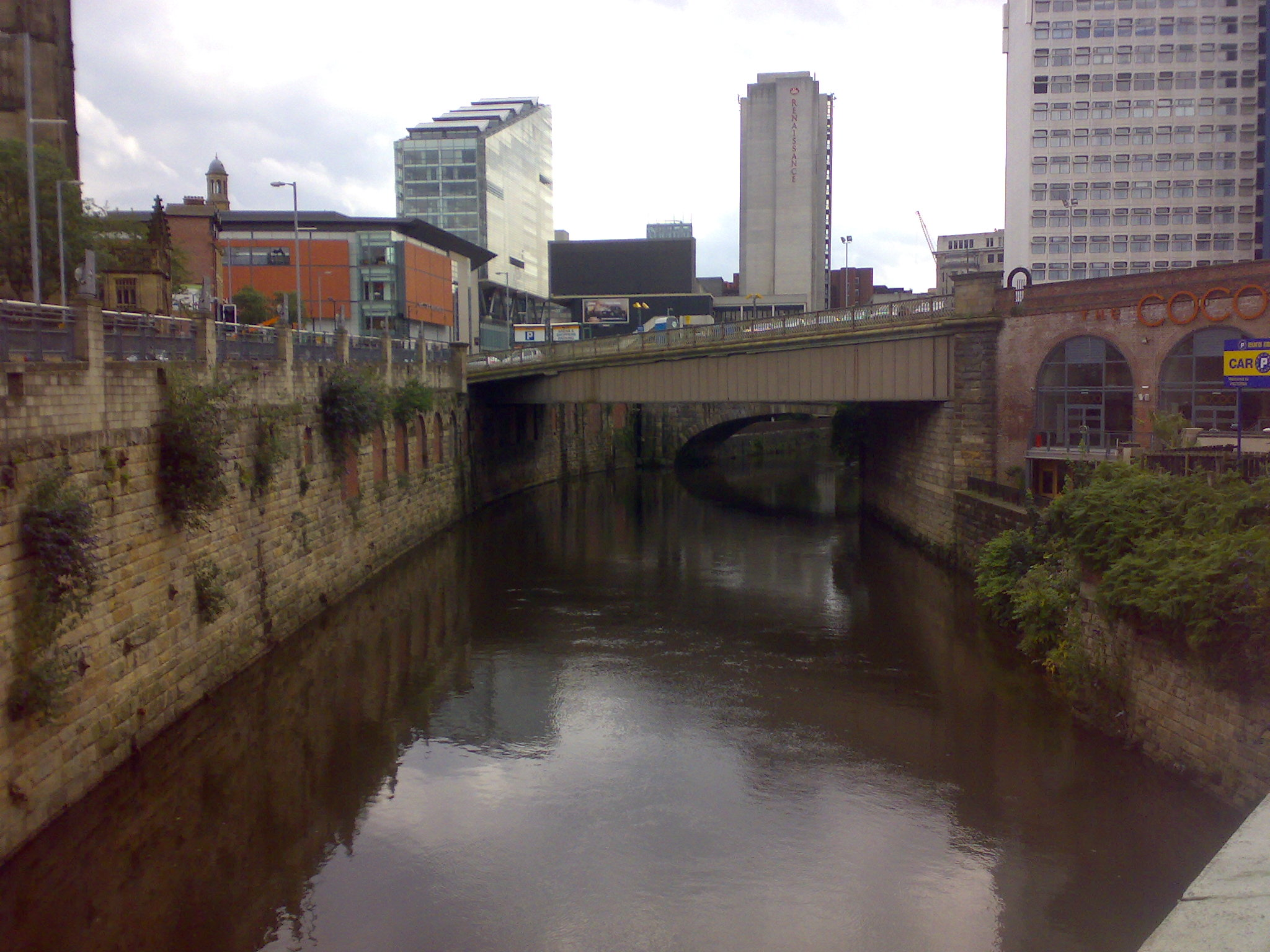 This shows the northern end of the cathedral landing stages, and is taken from the junction of Canal Street in Salford with Victoria Street in Manchester.